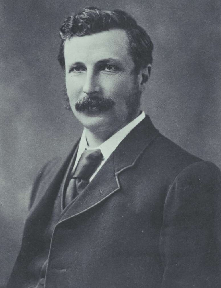 John Cockburn From the 1898 Australasian Federal Convention Album.